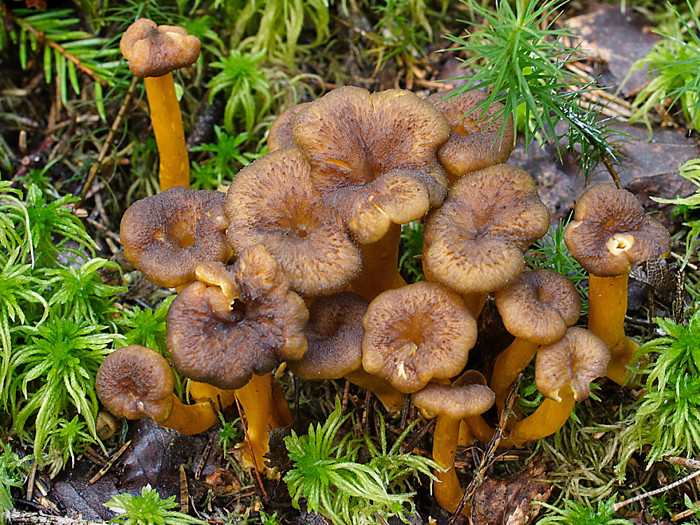 My favourite mushroom, not photographically but gastronomically (YUM!). Trumpet chanterelle has all you need from a mushroom: great taste, easy and fun to pick, no maggots etc. The only nuisance is that they coincide with the nastiest of all creatures: the elk fly (YUK!)